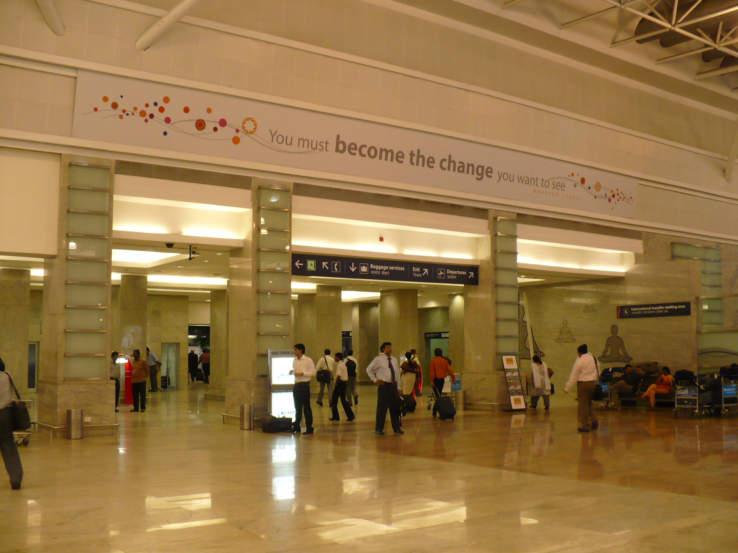 Bombay Airport in Munbai, India.